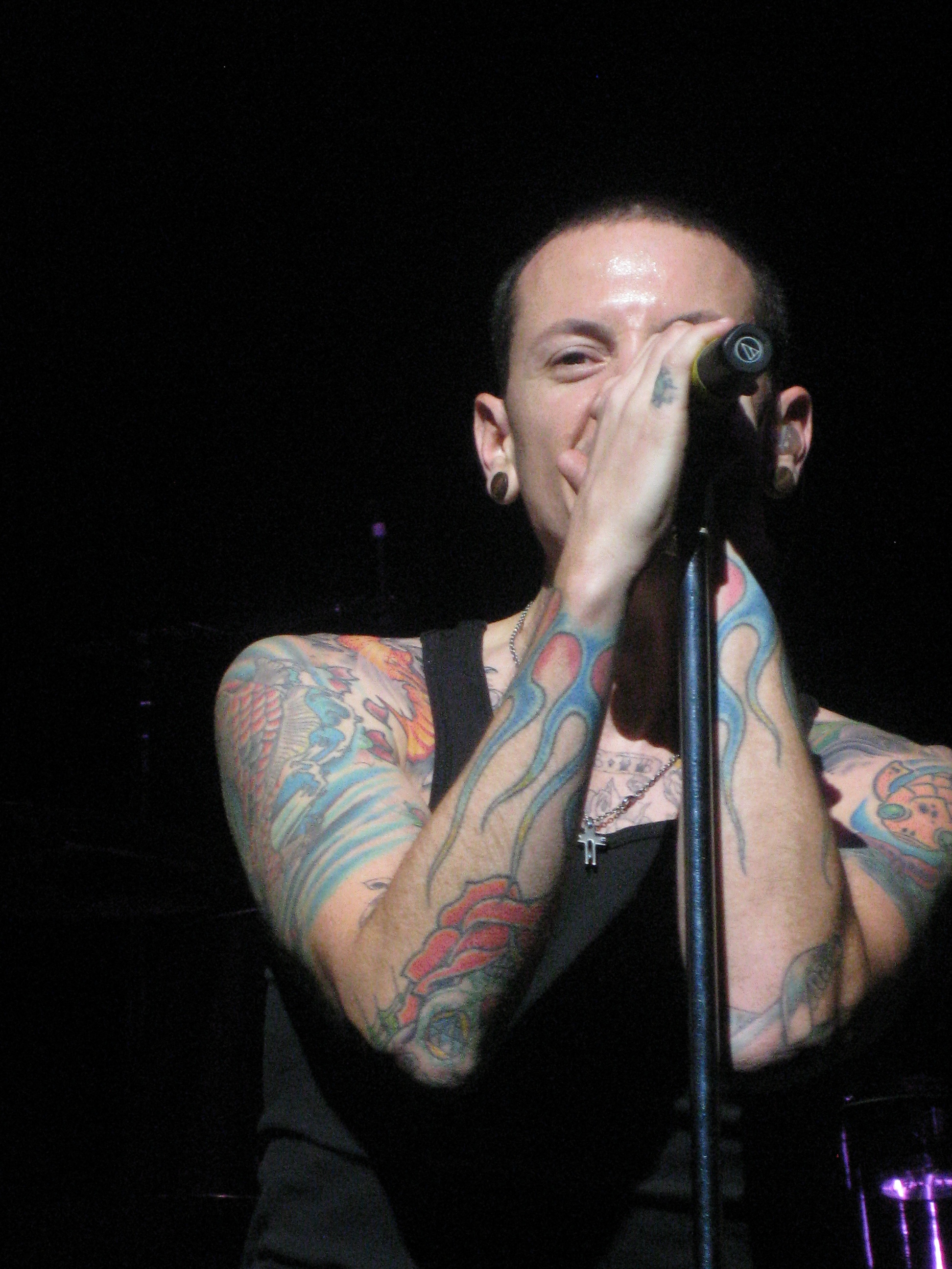 Chester Bennington performing in Dallas, Texas.